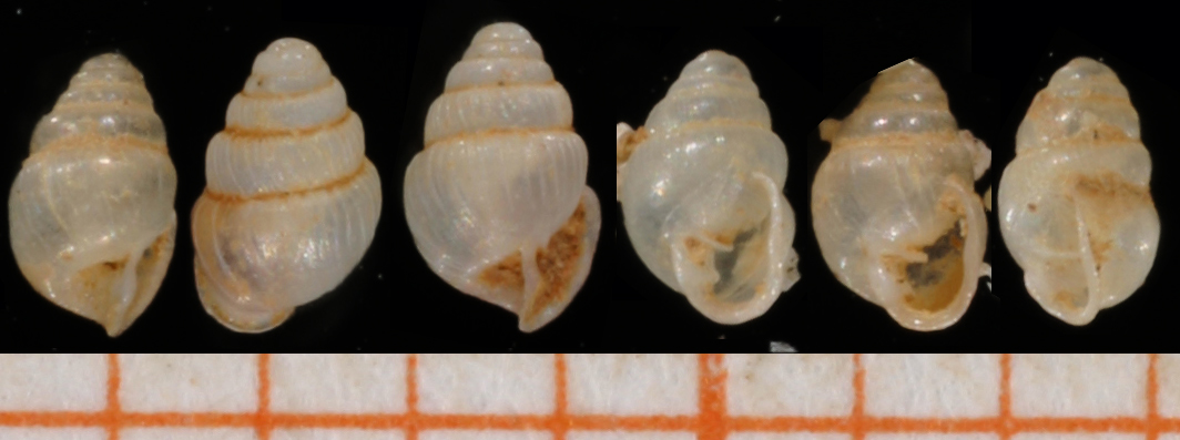 Zospeum spelaeum (Rossmässler, 1839), Carychiidae, Pulmonata, Gastropoda, Turkova jama near Zaplani, Slovenia